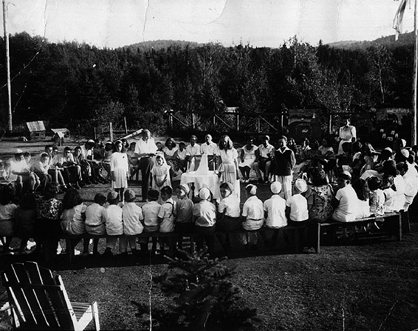 Open air Shabbath service at 'Massad' summer camp, Laurentians, Quebec, Canada, 1947.